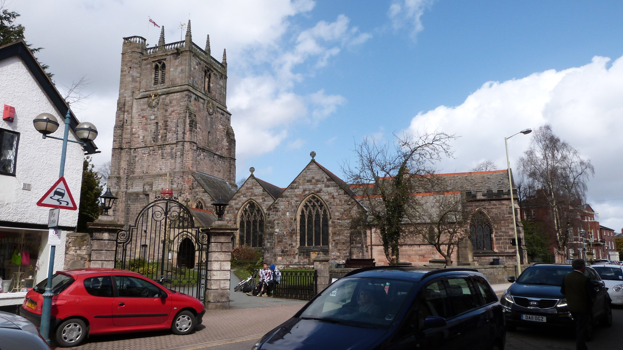 St Oswald's church was first mentioned in the 1085 Domesday book and a tithe document in Shrewsbury the same year. St Oswald's Church has a Norman tower dating from 1085.